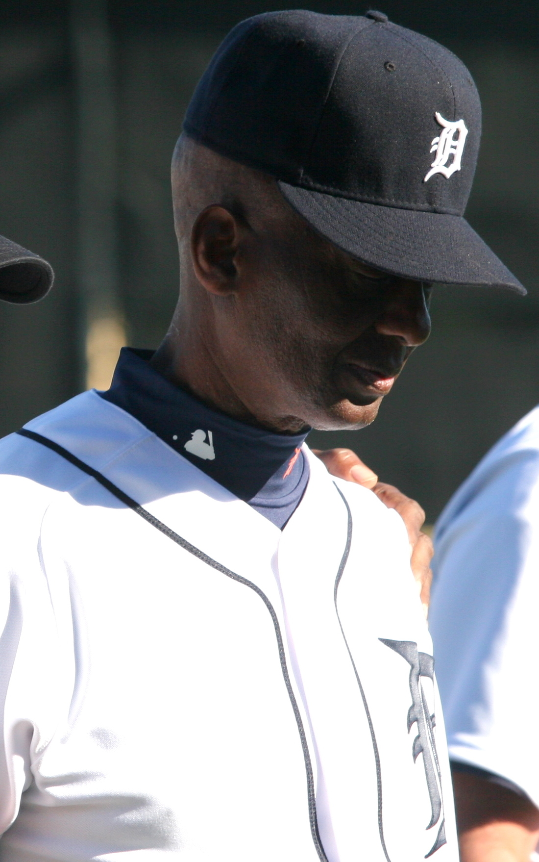 Ike Blissett (left) and Jake Wood at the 2012 Detroit Tigers Fantasy Camp in Lakeland, Florida